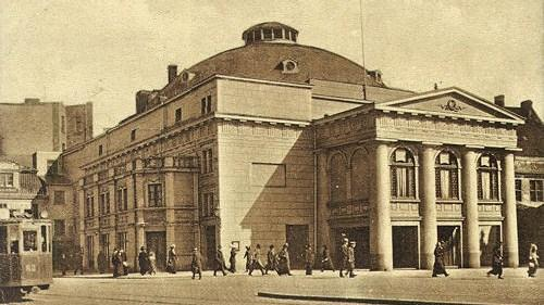 Theatre in Danzig (Gdańsk, Poland today).